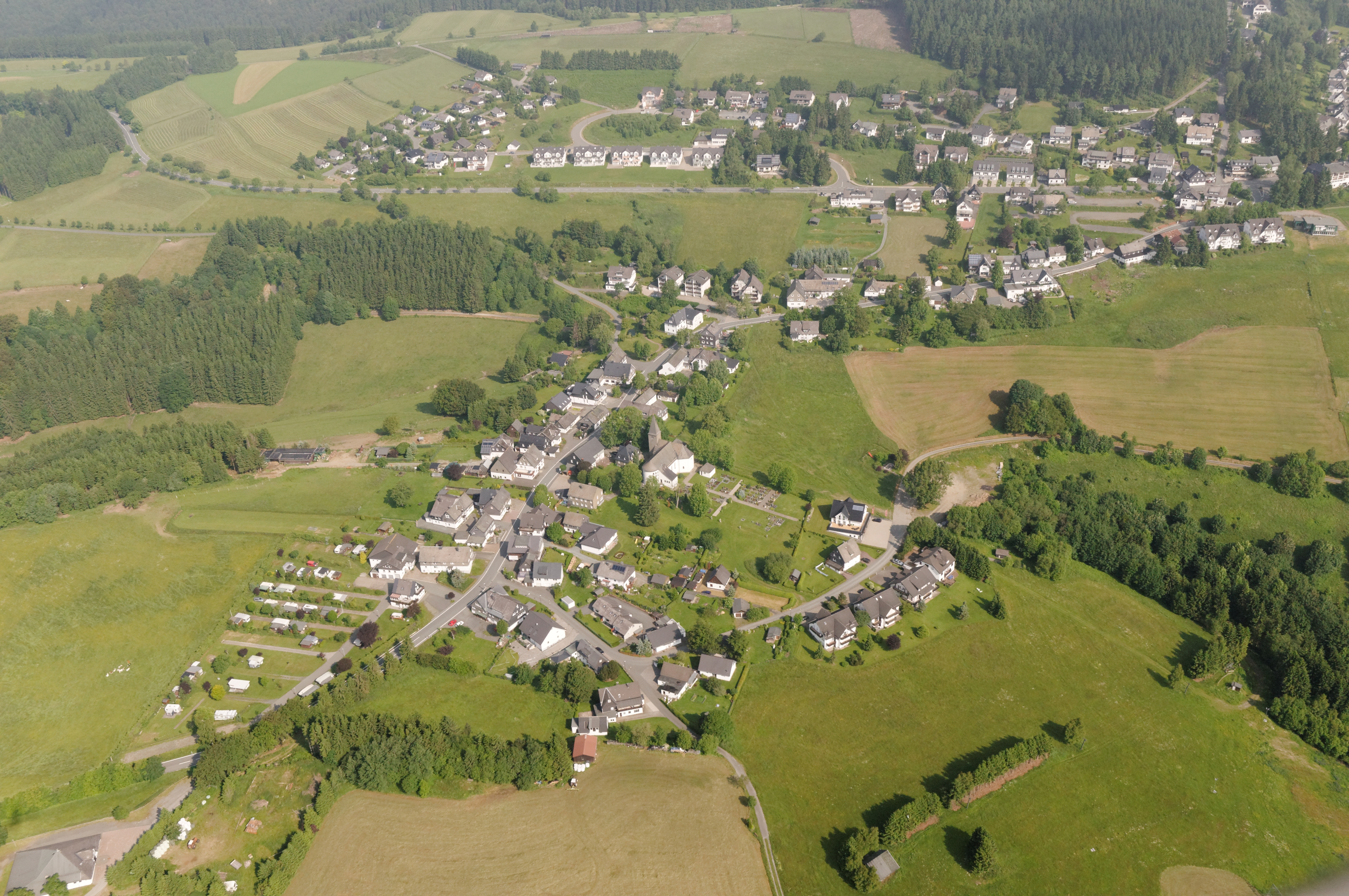 Fotoflug Sauerland-Ost, Winterberg-Neuastenberg, Blick Richtung Norden The making of this document was supported by the Community-Budget of Wikimedia Germany.